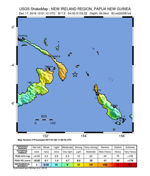 M 7.9 - 54km E of Taron, Papua New Guinea - shakemap